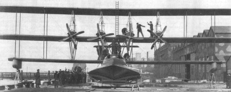 Photograph of the Curtiss T Wanamaker Triplane